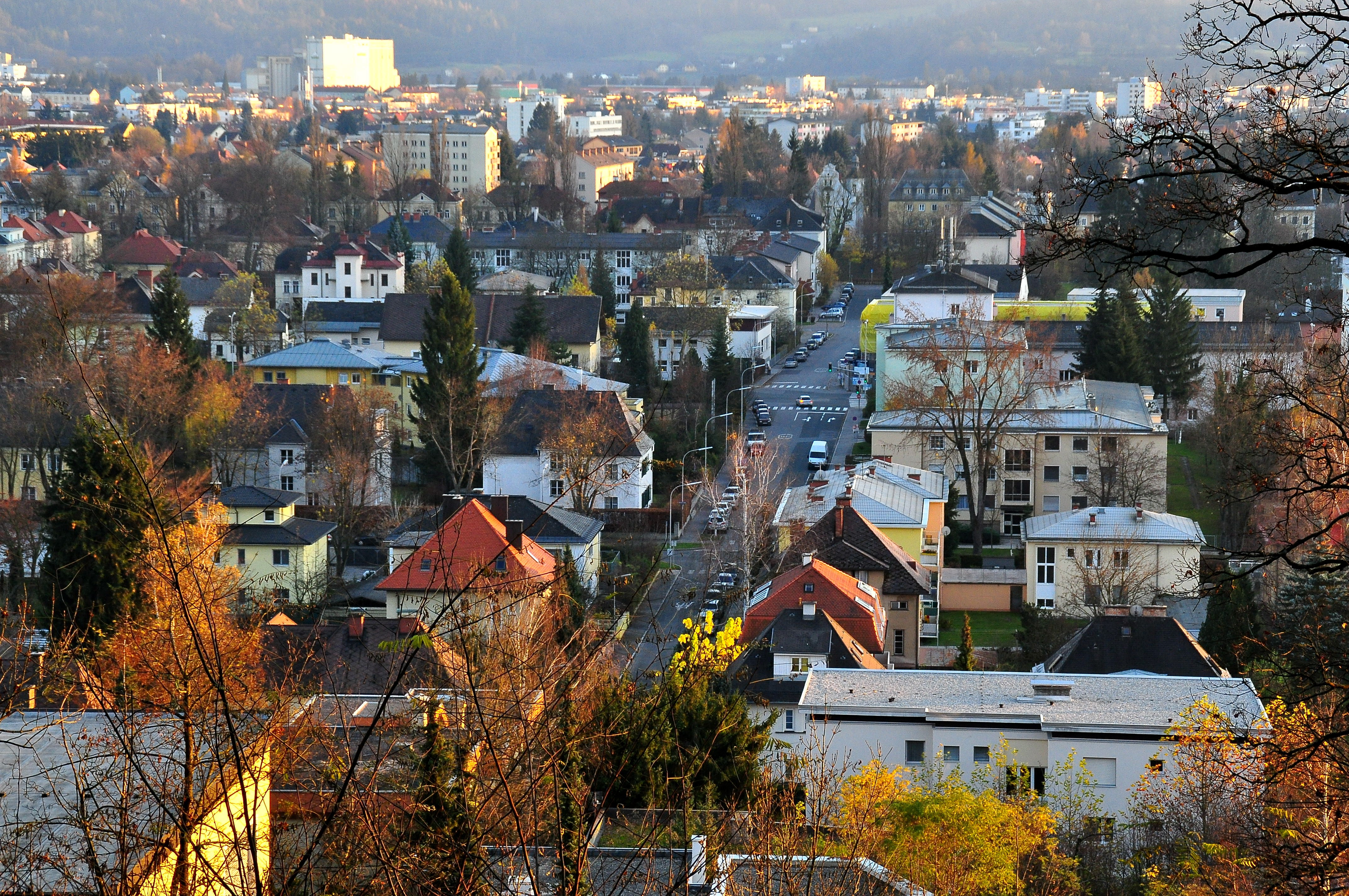 Adolf Tschabuschnigg Street, marking the border between the two western districts “Villacher Vorstadt” and “Sankt Martin” of Klagenfurt, Carinthia, Austria